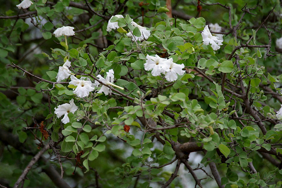 Dolichandrone falcata - Medhshingi • Hindi: Hawar • Marathi: मेढ़शिंगी Medhshingi, भेड़सींग Bhersing • Tamil: Kadalatti, Kaliyacha, Kattuvarucham • Malayalam: Attulottappala, Nirpponnalyam • Telugu: Chittiniruvoddi, Chittivoddi • Kannada: Godmurki, Muduvudure, Udure • Oriya: Mrigosingo • Sanskrit: Mesasrnga, Visanika - in Hyderabad, India.